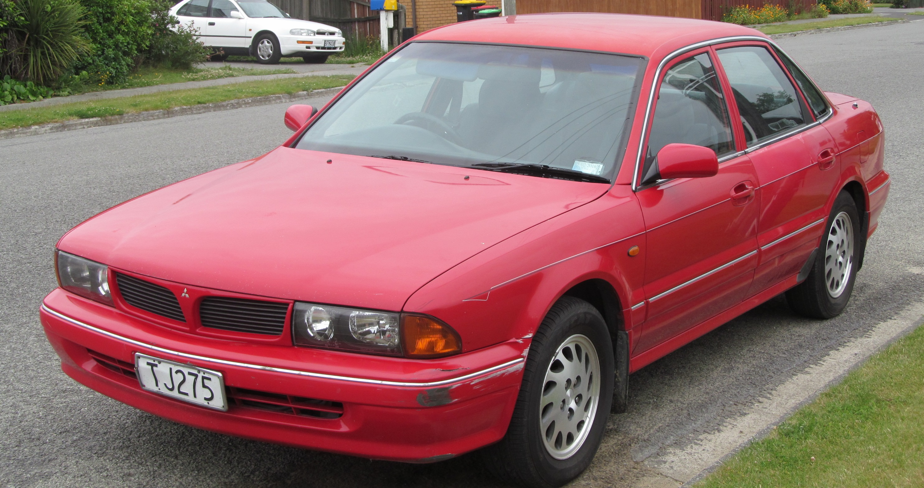 1995 Mitsubishi V3000 Super Saloon (KS; New Zealand)